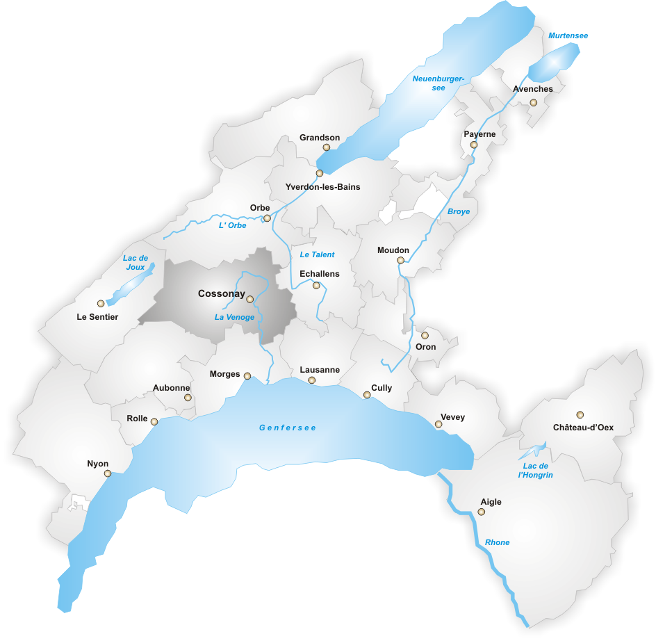 District Cossonay until 2007